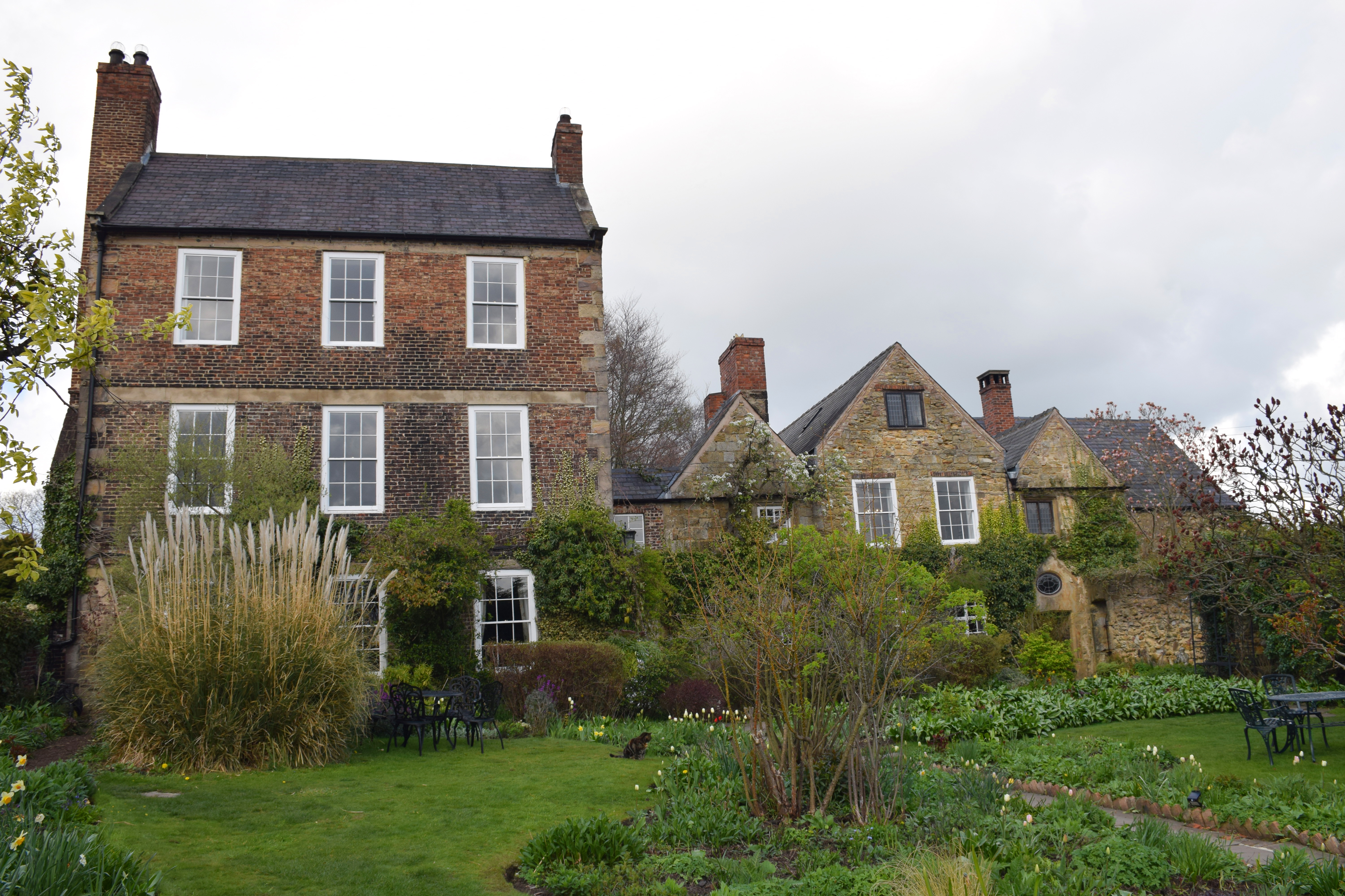 Crook Hall, Durham, from its formal gardens. The 18th century house is to the left, then the 17th century link in the centre; the roof of the medieval hall is visible to the right.